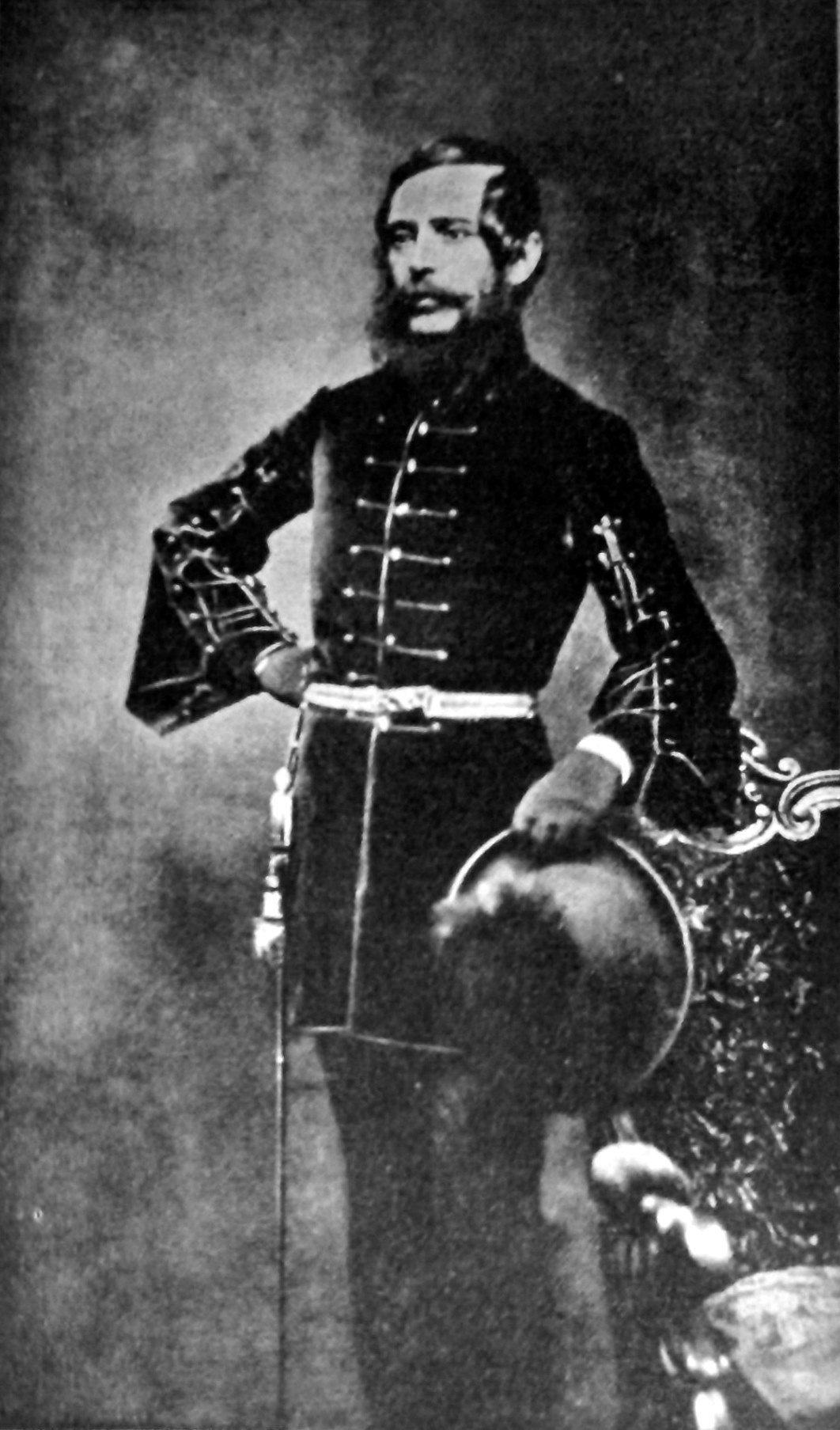 Lajos Kossuth in USA